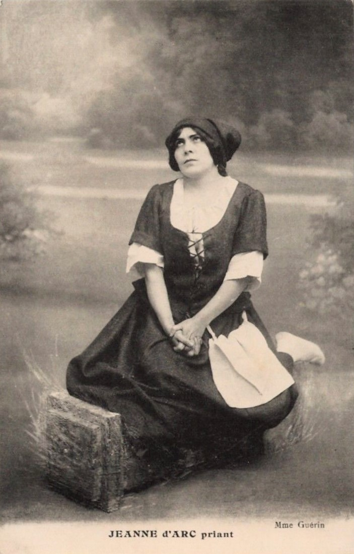 This is how lecturer Madame Guérin as a praying Jeanne d'Arc, during her Alliance française lectures about the Maid of Orleans.